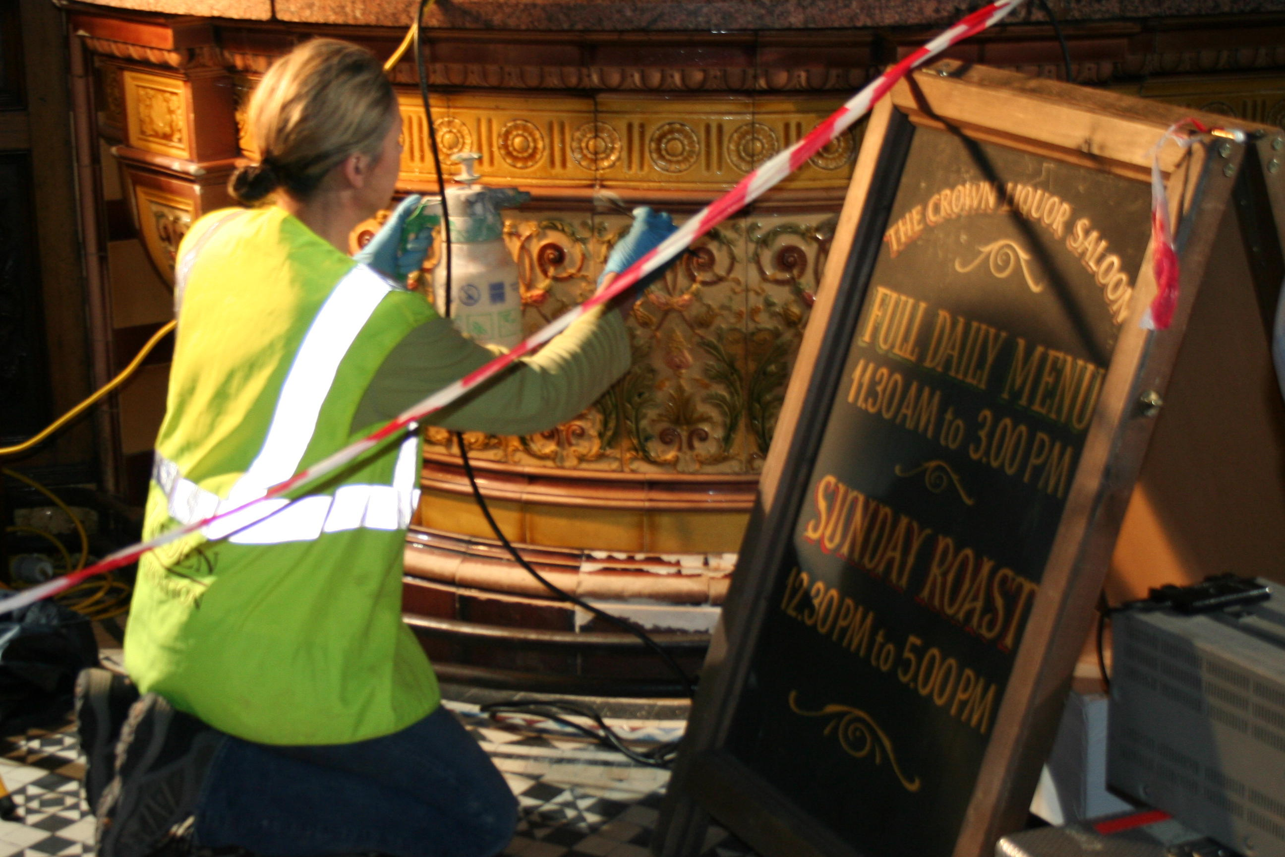 Restoration of the Crown Bar in progress, August 2007 Credit: A Peter Clarke image